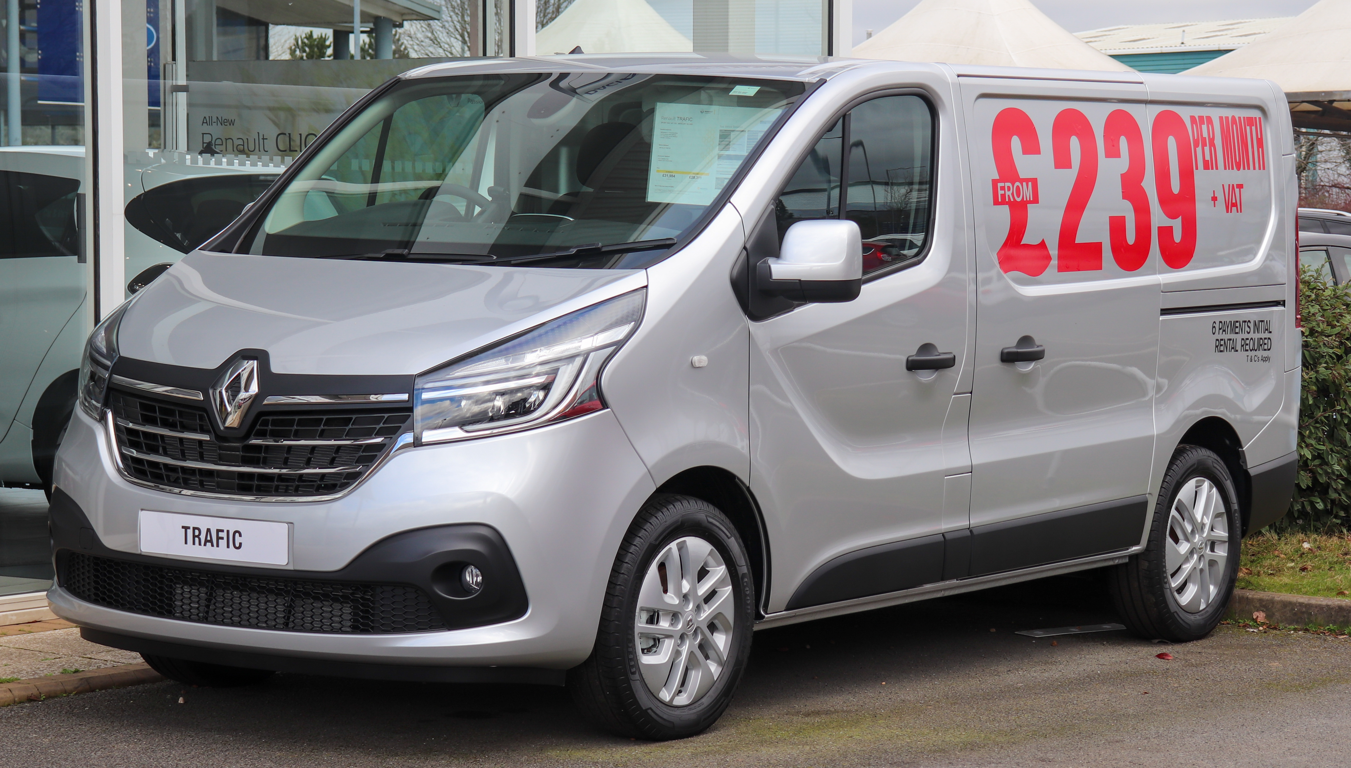 2019 Renault Trafic Sport facelift Taken in Leamington Spa